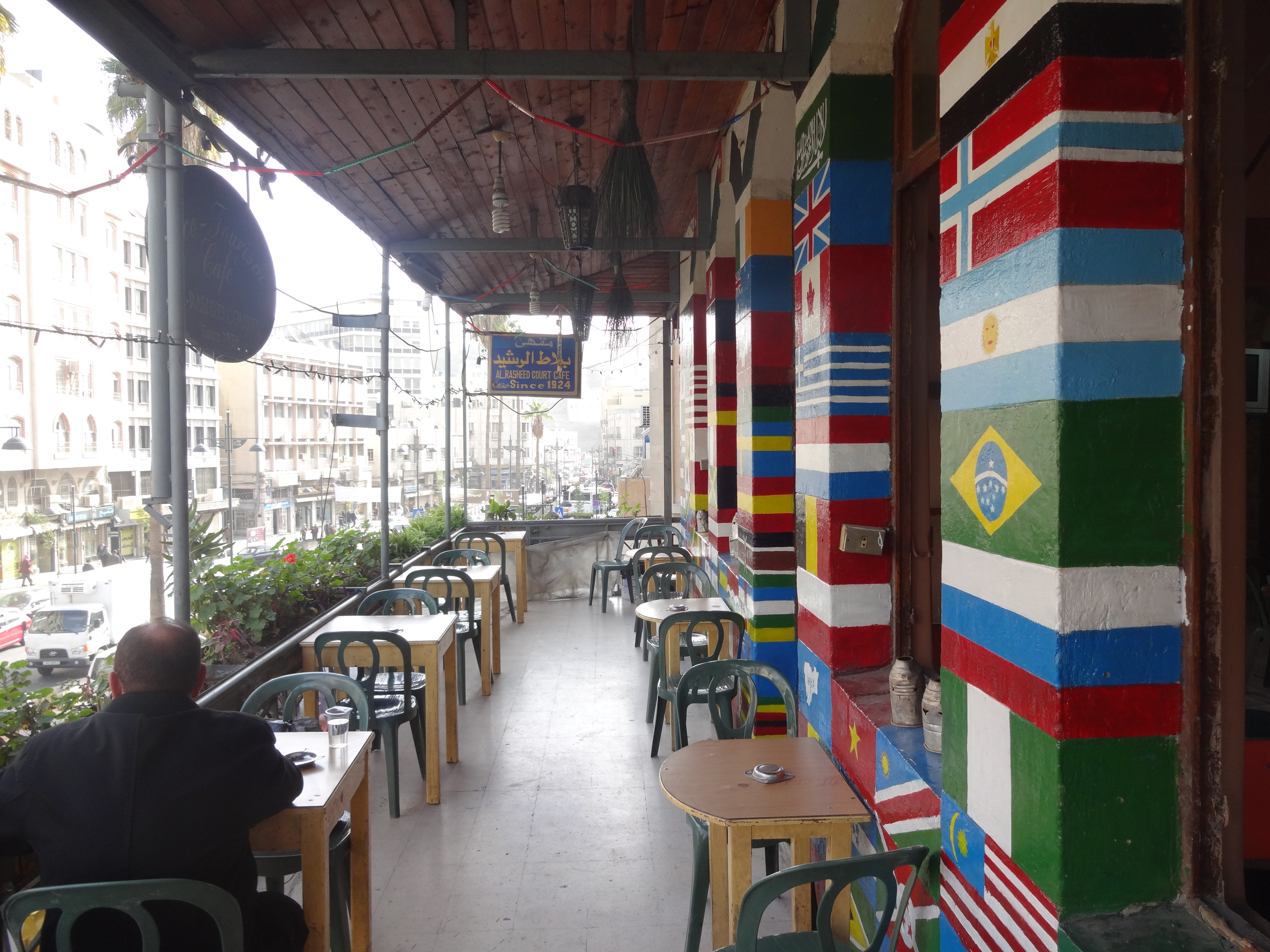 Old Amman Market and central area. Very famous Soque and a tourist magnet